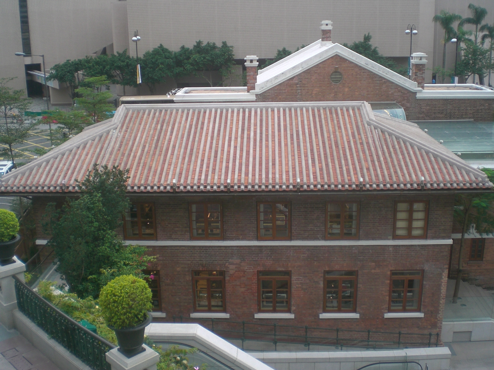 尖沙咀zh:1881 Heritage